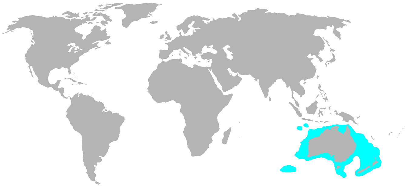 A distribution map of the Australasian Gannet (Morus Serrator) seabird species.